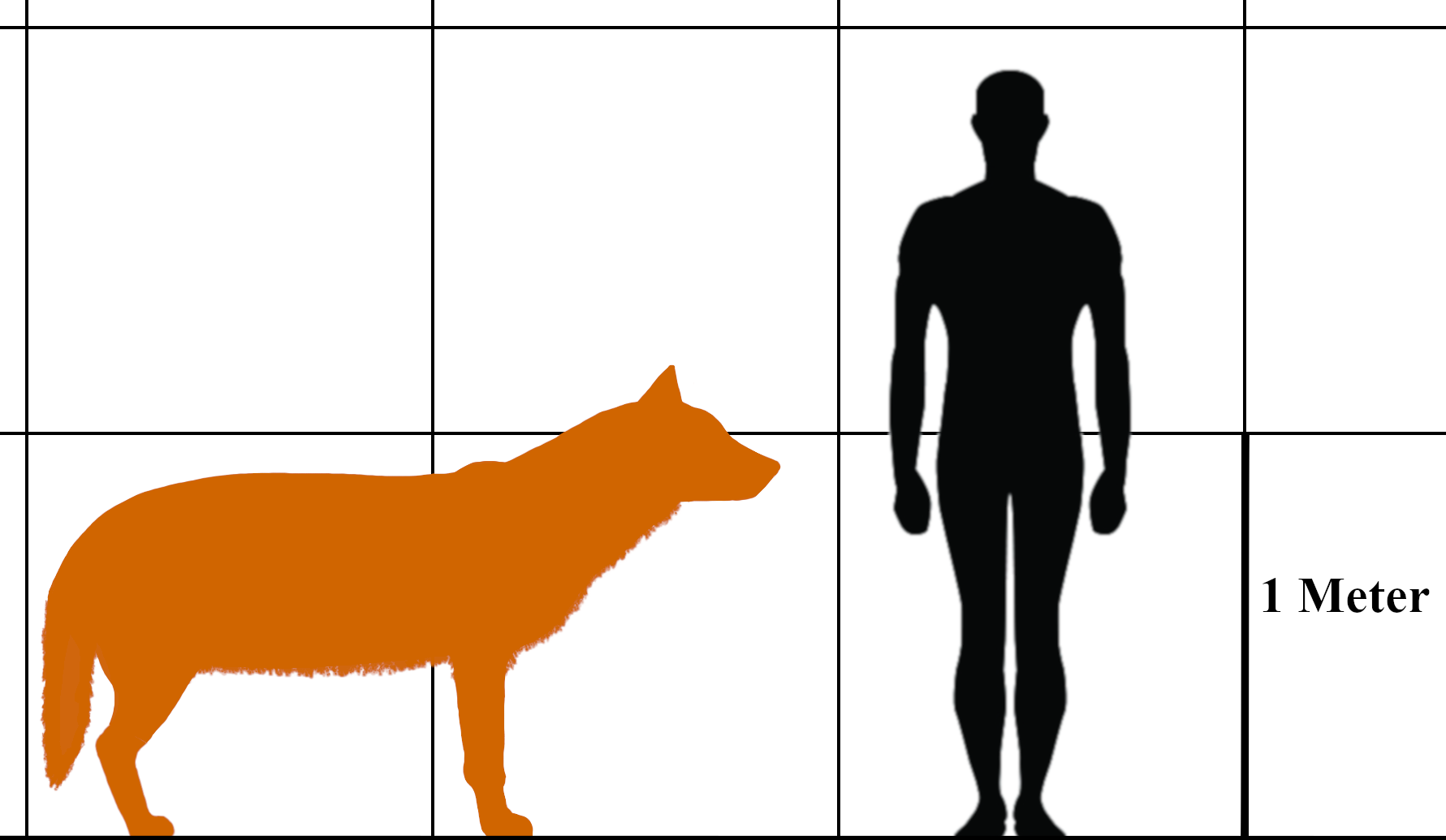 Human comparison of C. dirus with a human